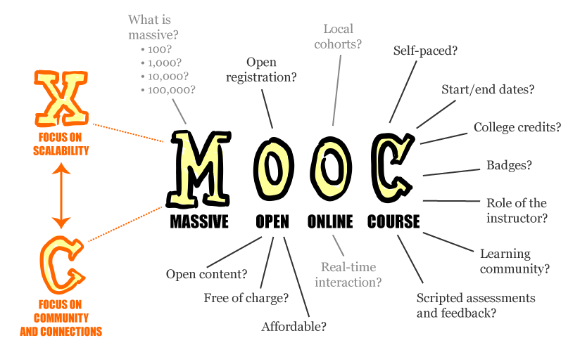 MOOC poster April 4, 2013 by Mathieu Plourde licensed CC-BY on Flickr, explores the meaning of "Massive Open Online Courses" aka MOOCs. This has been used in a reliable source, , so it's not just original artwork, but was licensed CC-BY first.